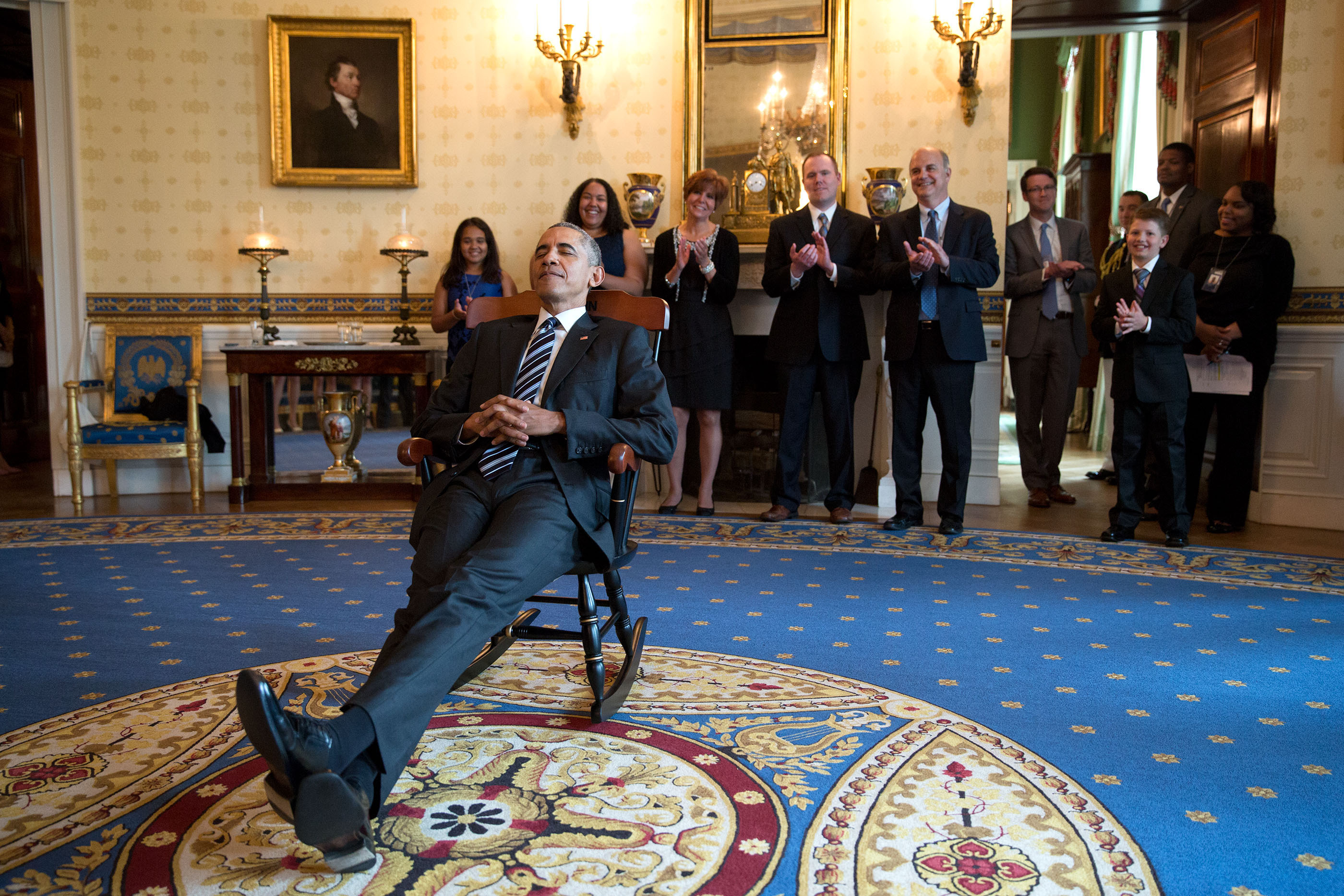 President Barack Obama is presented with a rocking chair from UConn Head Coach Geno Auriemma in the Blue Room prior to an event to welcome the 2016 NCAA Champion University of Connecticut Huskies women’s basketball team to the East Room of the White House, May 10, 2016. (Official White House Photo by Pete Souza)